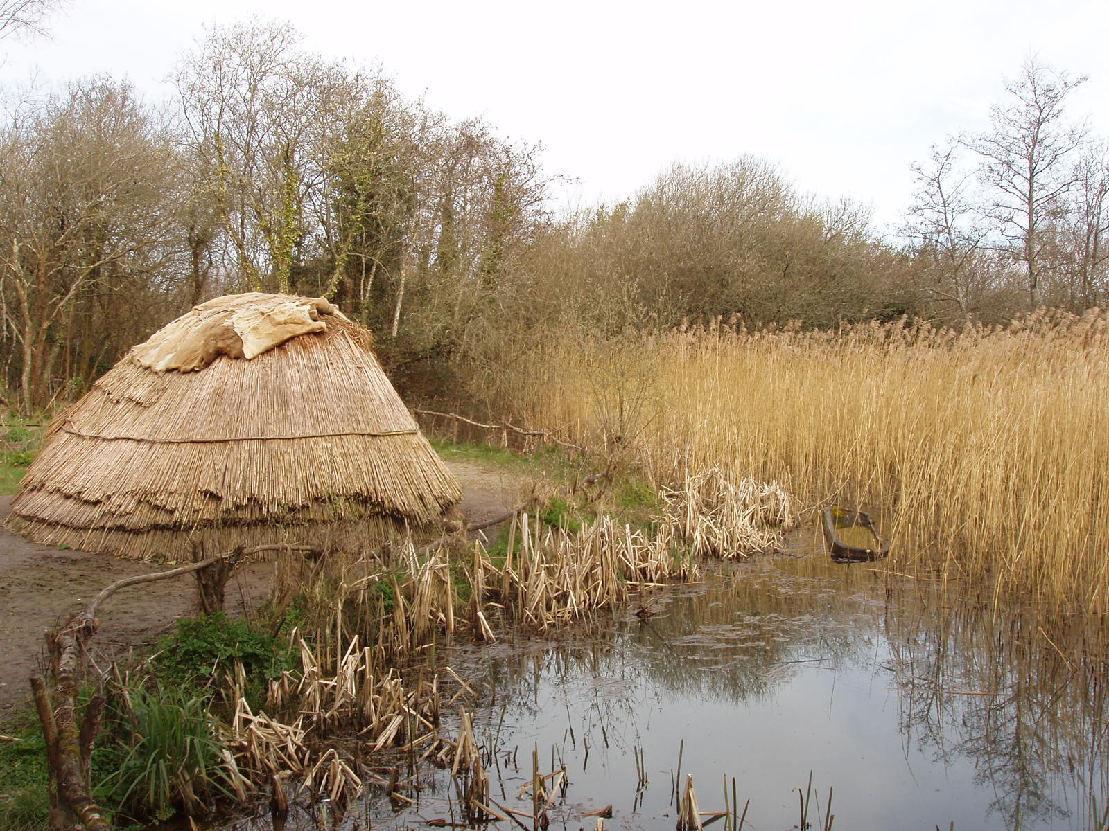 Hunter gatherer's camp at Irish National Heritage Park Exhibit showing how a 7000 B.C. campsite of Mesolithic period hunter gatherers would have looked. They were nomadic and built temporary houses. Wood, bone and flint were the materials of their tools. They fished using dugout canoes - there is one in the photo. More photos in the park, .